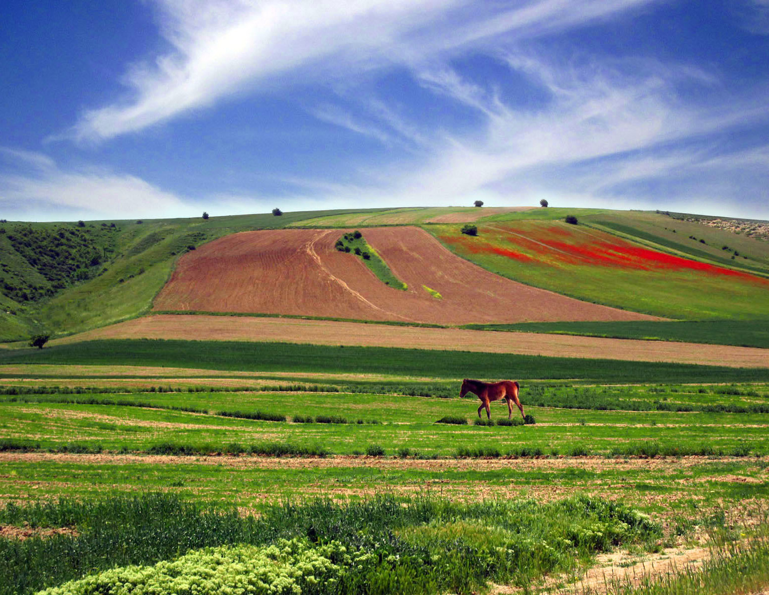 I'm commander in plain Tulips, Semnan Province, Iran